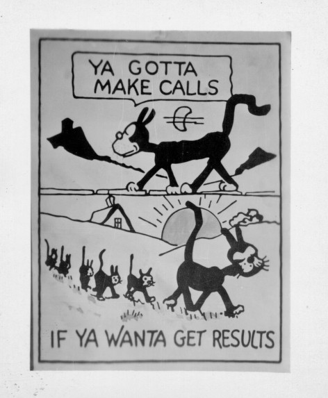 A flyer divided into a top and a bottom part. The top part of the flyer features a four-legged animal (possibly a cat?) with a word bubble above its head that reads YA GOTTA MAKE CALLS. The bottom part of the flyer features the same four-legged animal with five smaller four-legged animals and a house and a sun in the background. Under the animals are the words IF YA WANTA GET RESULTS.